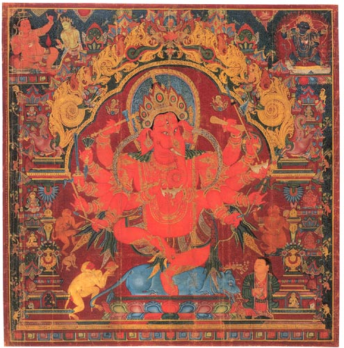 Dancing Ganpati, 15th century , Central Tibet Source: [1] This work is pictured on page 125 of . The caption in Pal describes it as "Dancing Ganesh. Central Tibet. Early fifteenth century. Colours on cotton. Height: 68 centimetres."